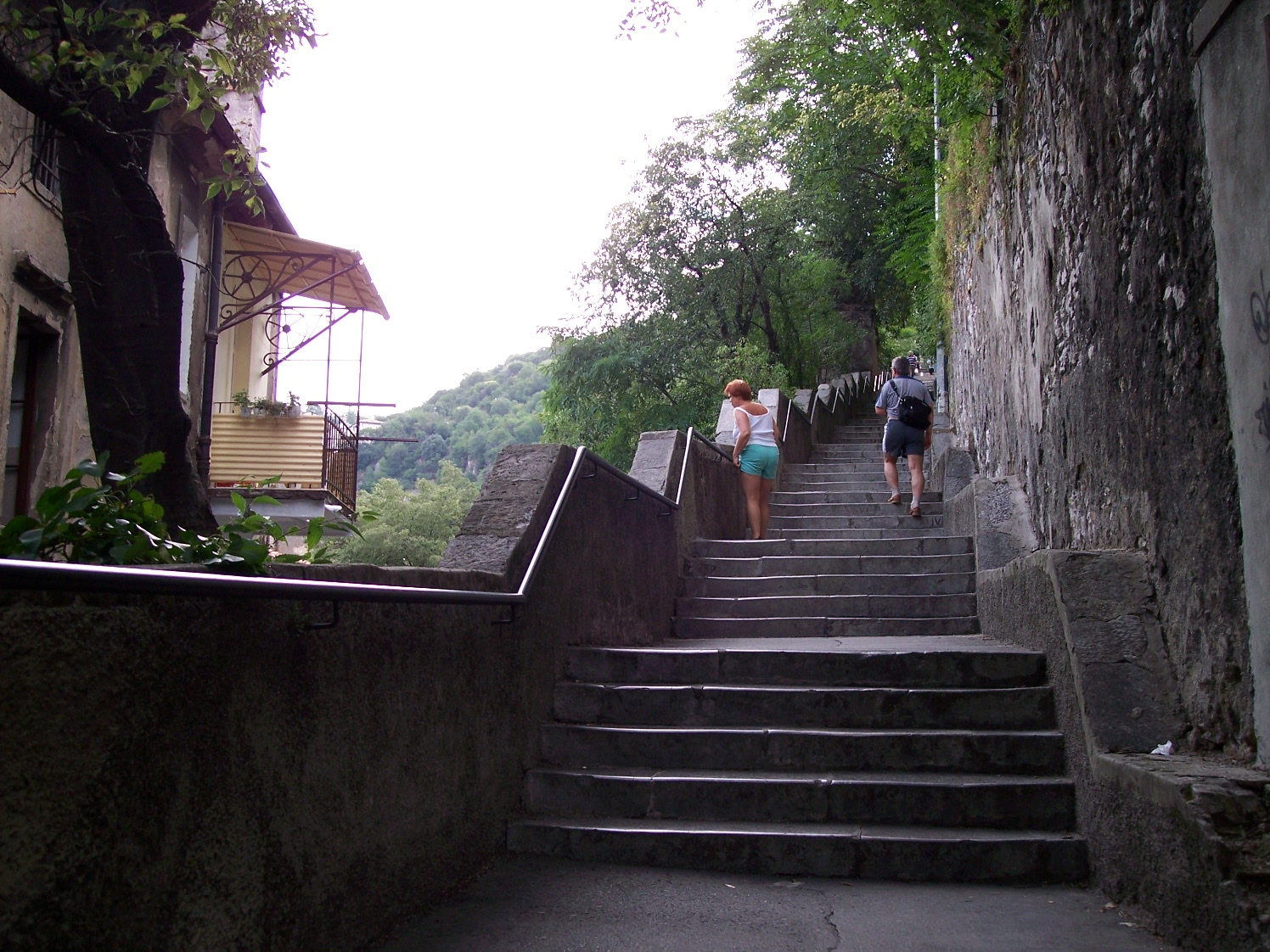 Petar Kruzic Stairway in Trsat district in city Rijeka (Croatia)